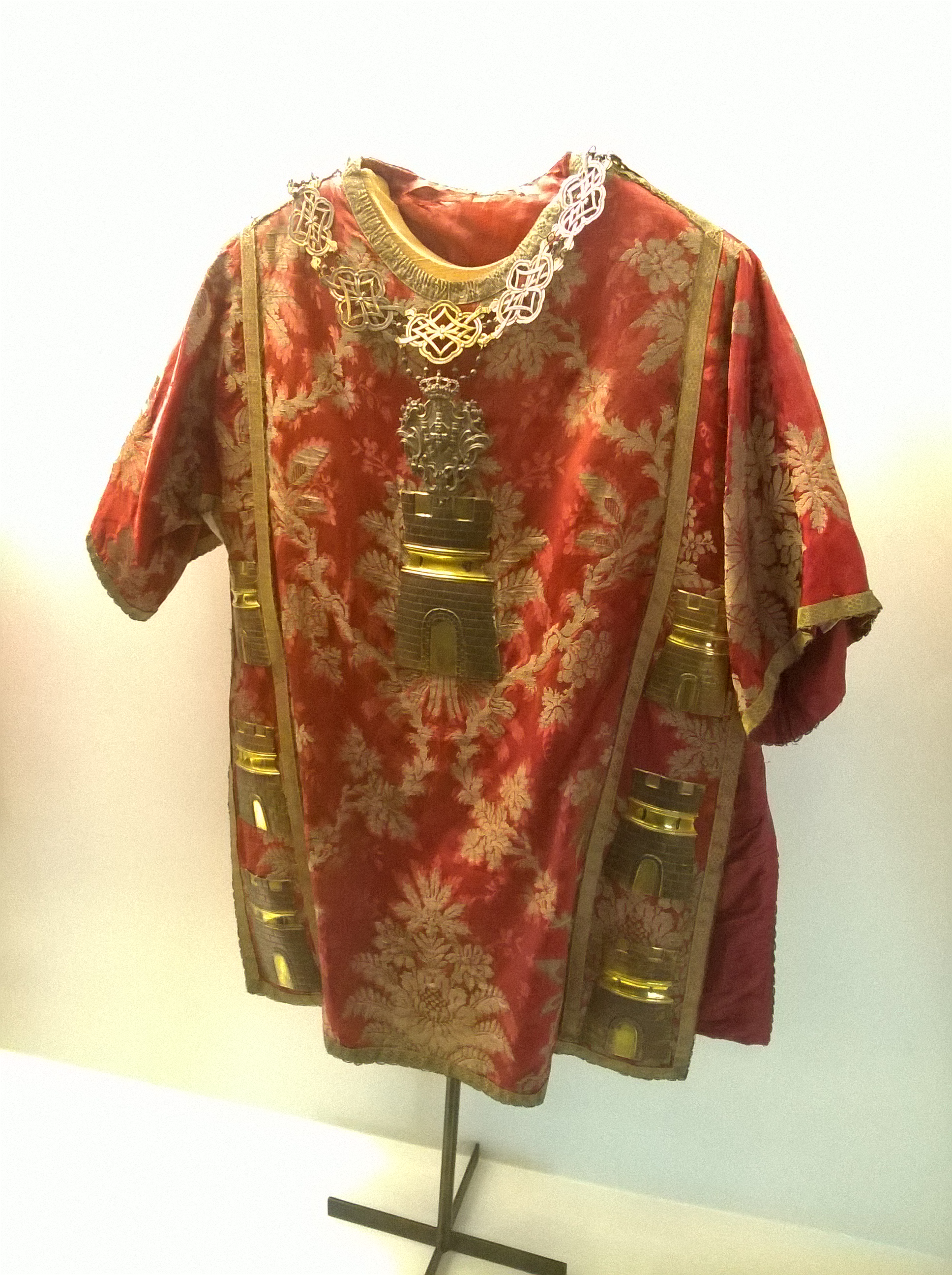 18th century tabard and collar of a Portuguese King of Arms at the National Coach Museum, Lisbon